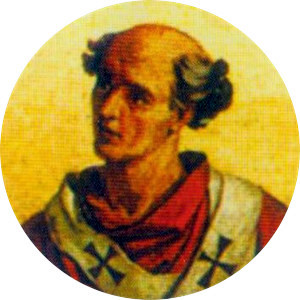 Portait of Pope Valentine in the Basilica of Saint Paul Outside the Walls, Rome